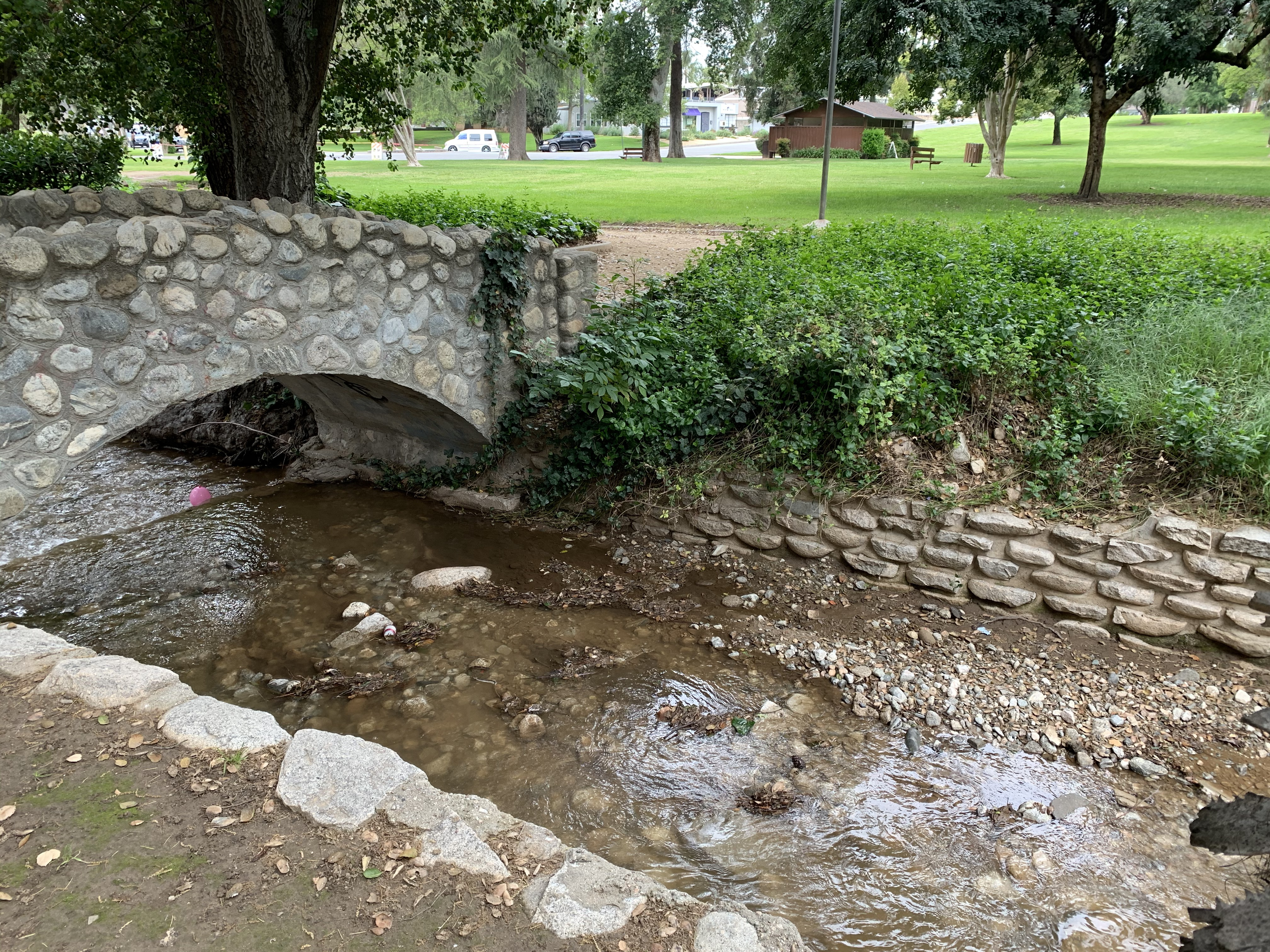 Sylvan Park Zanke (zanja) ditch creek. Redlands, CA.